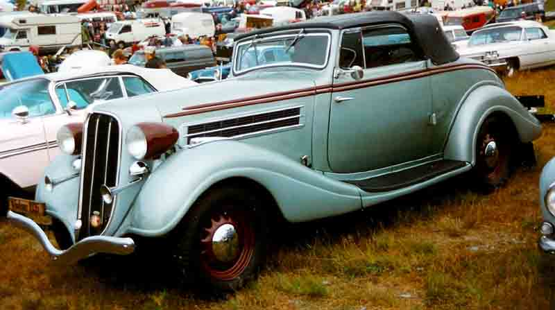 Hudson Special Eight (Series HT) Convertible Coupé (1935)